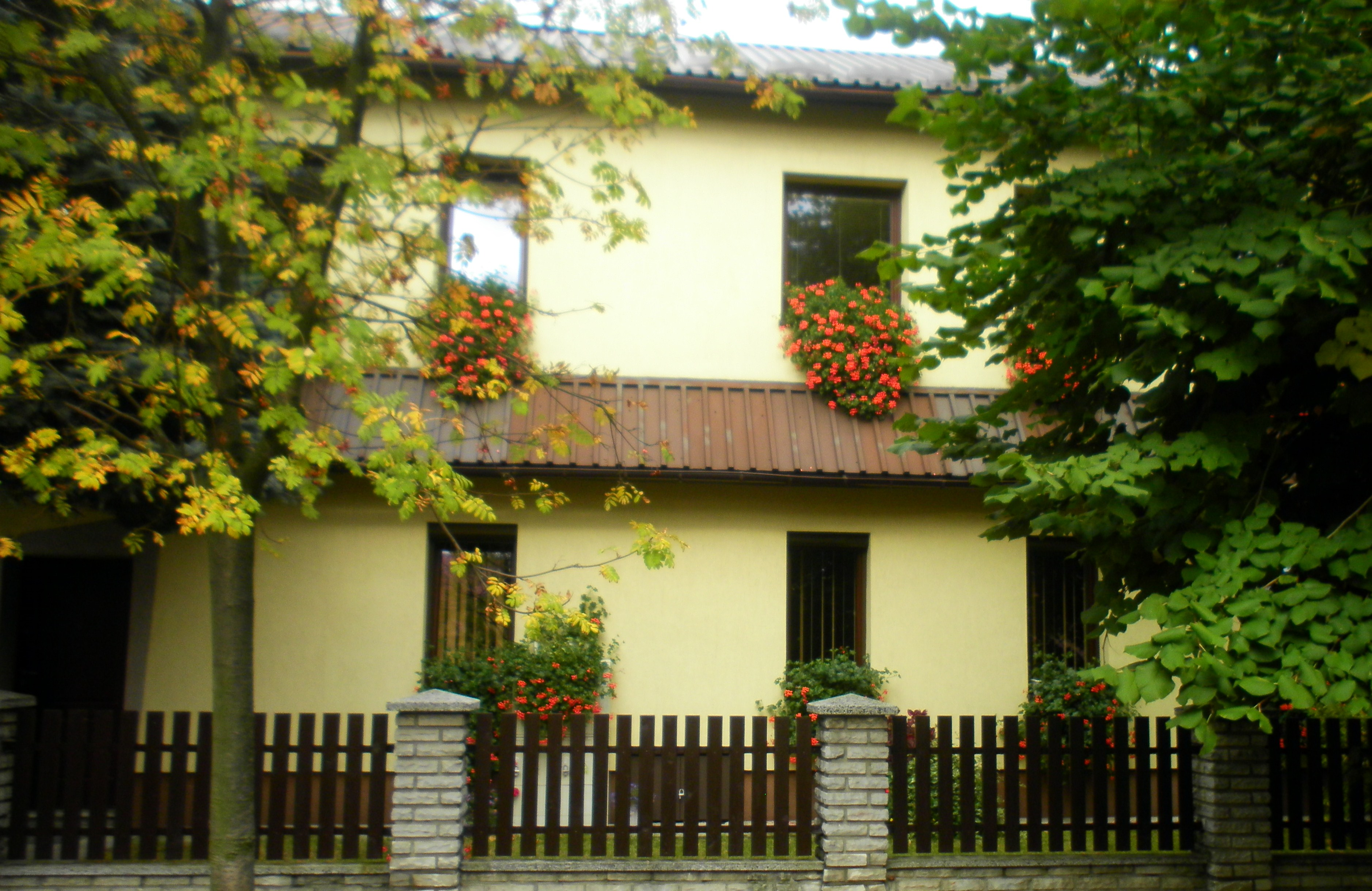 Kingdom Hall Olkusz